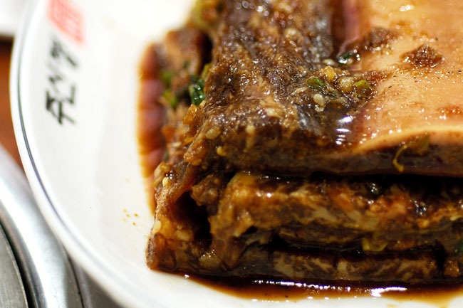 Yangnyeom galbi, marinated galbi (beef ribs) in Korean cuisine